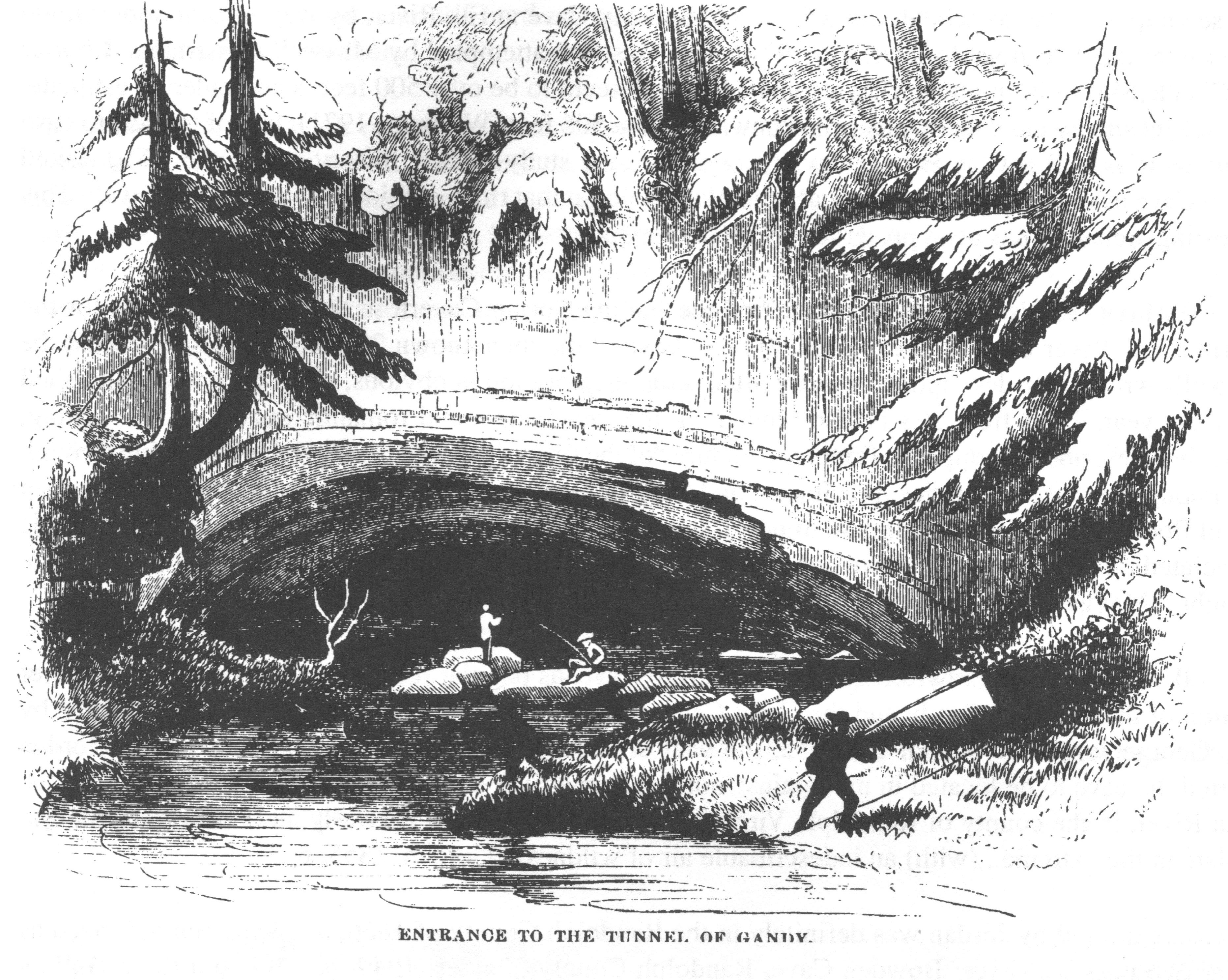 The "Tunnel of Gandy" (Now called Sinks of Gandy Creek, West Virginia)